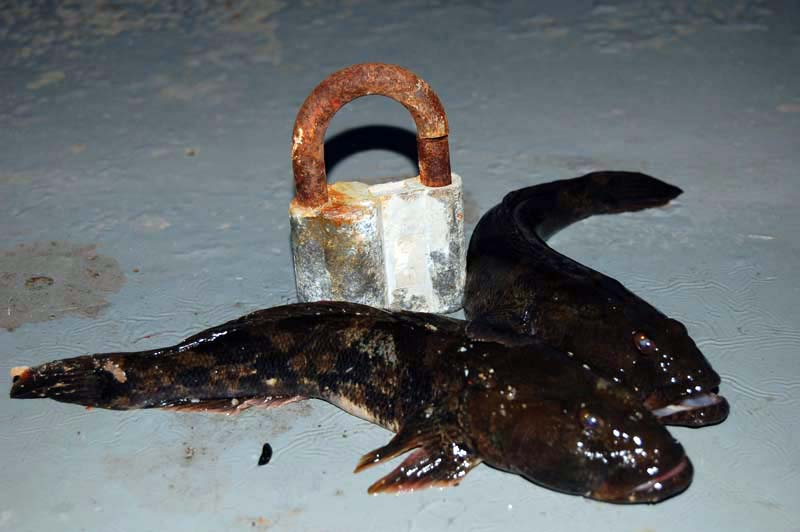 The knout goby from the Gulf of Odessa, Black Sea